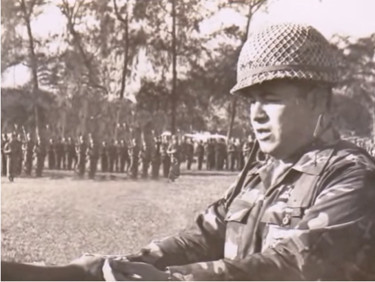 First Commander of the Liceo Militar del Norte